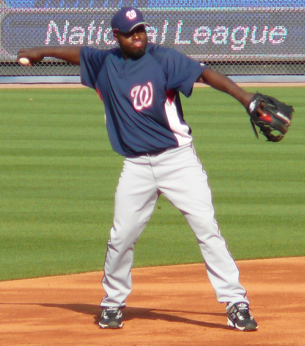 User:Chrisjnelson agreed to license this image of Cristian_Guzman.jpg under a free attribution license. Any use of this image must be attributed; this means that Photo by :en:User:Chrisjnelson|Chris Nelson should be in the picture caption. 07:28, 24 April 2008 . . Chrisjnelson . . 972×1,104 (827 KB)